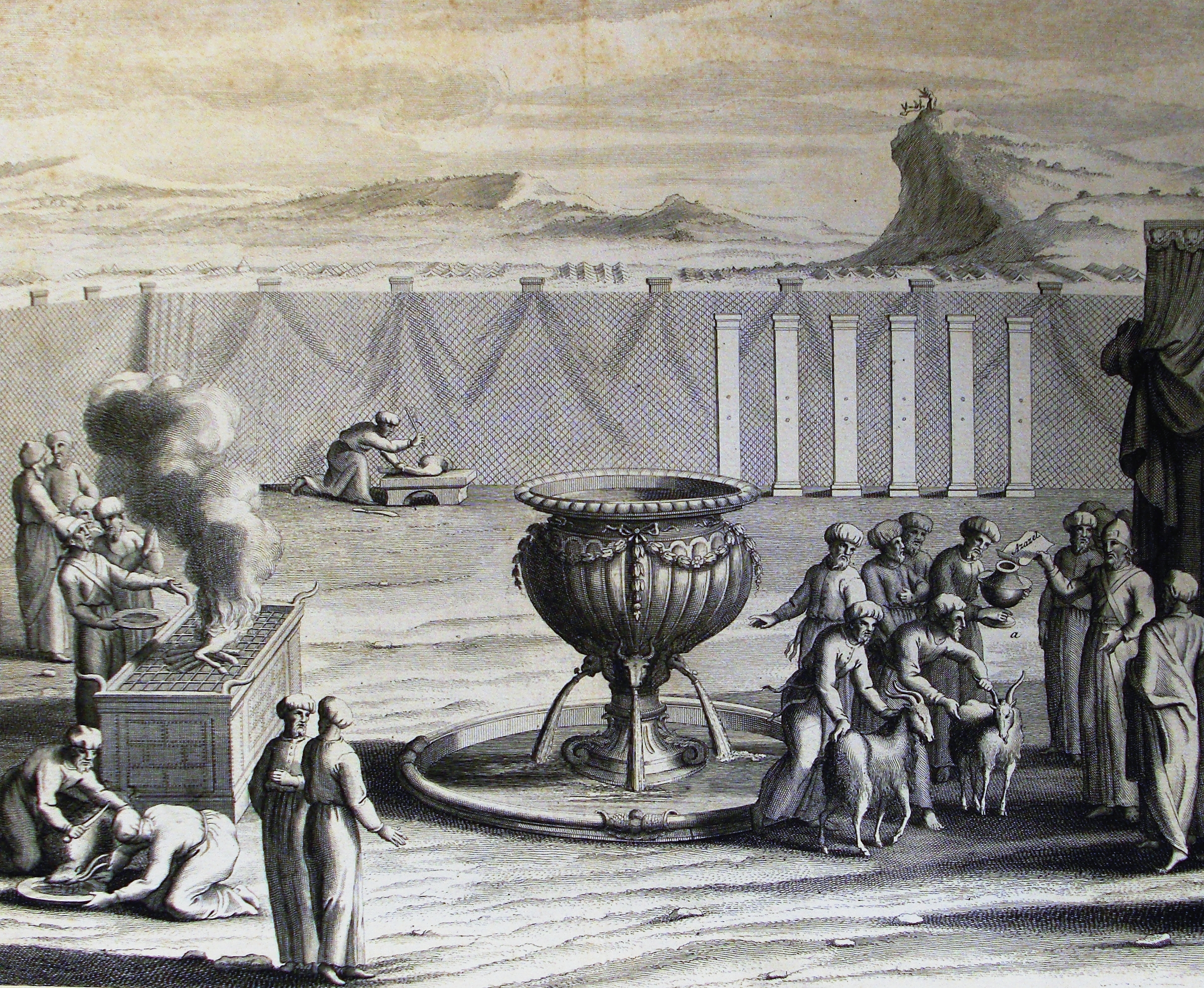 A print from the Phillip Medhurst Collection of Bible illustrations in the possession of Revd. Philip De Vere at St. George’s Court, Kidderminster, England.